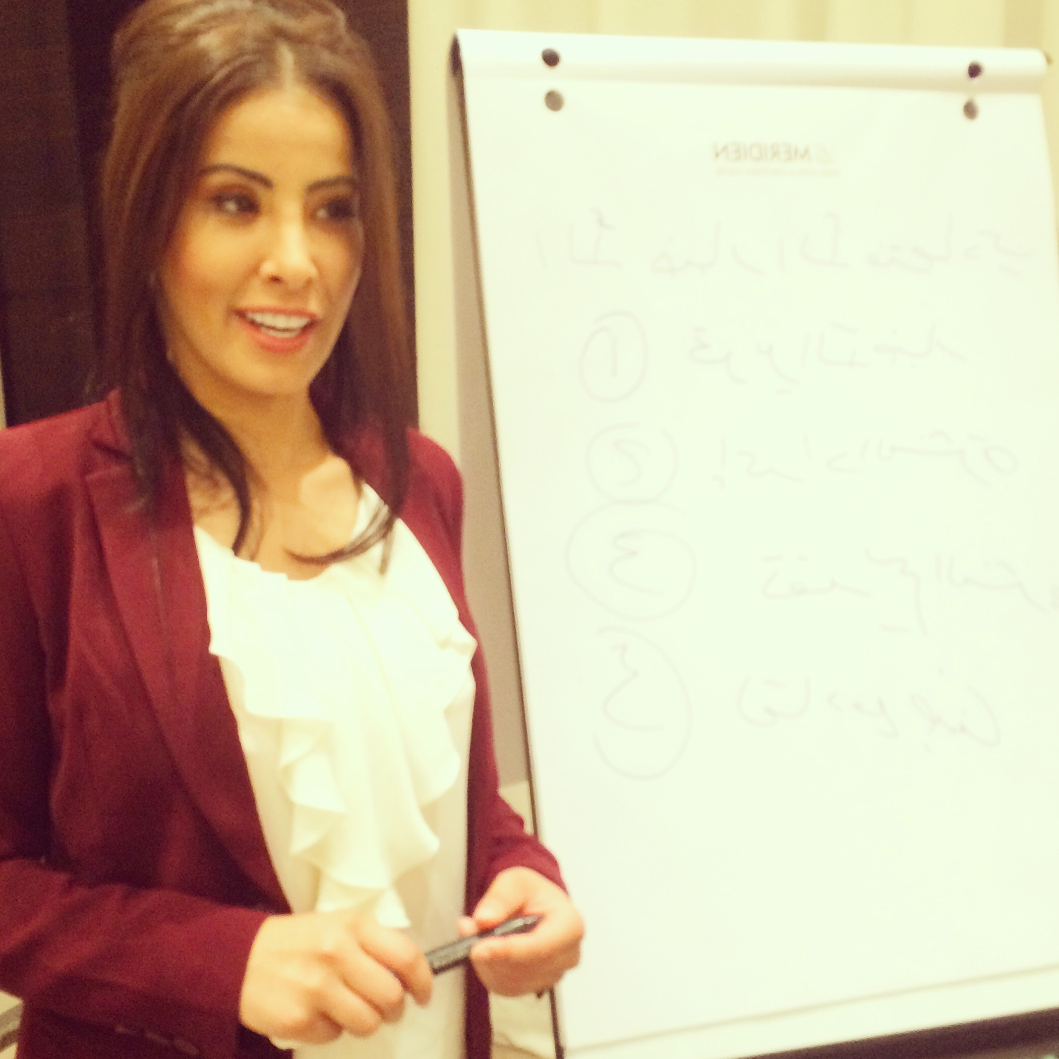 نورا المطيري Noura Almoteari